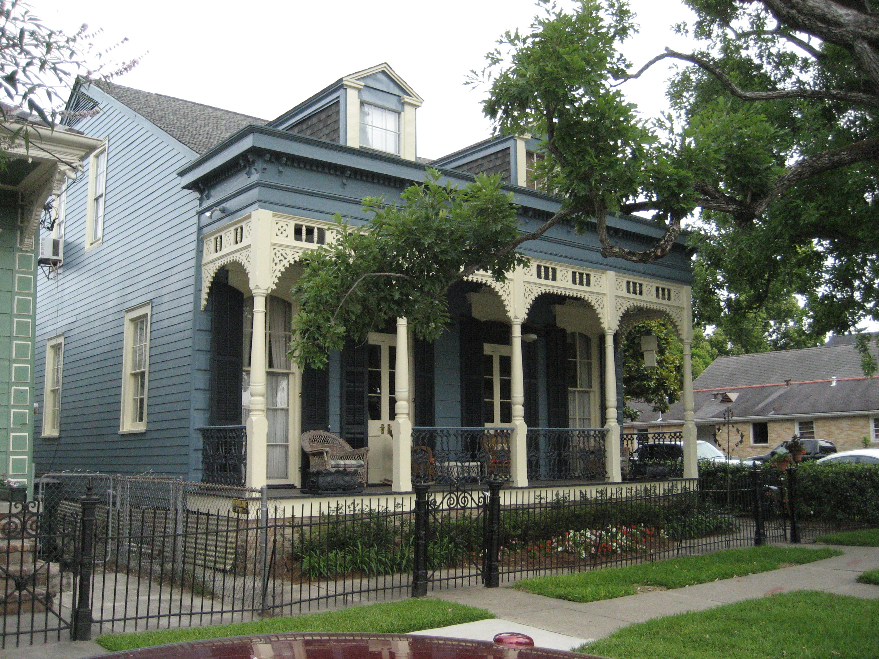 Uptown New Orleans. Residential architecture.